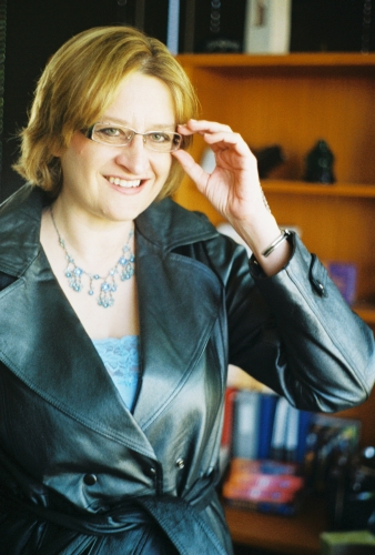 Elonka Dunin (born December 29, 1958) is an American game developer, writer, public speaker, and cryptographer. In 2003, she led the team that cracked the Cyrillic Projector cipher, and her book The Mammoth Book of Secret Codes and Cryptograms was published in 2006. She maintains websites with a list of the world's most famous unsolved ciphers, and on Kryptos, a sculpture/cipher located at CIA headquarters. Dunin is a game developer at Simutronics Corp. in St. Louis, Missouri, and was a producer on the team that created CyberStrike, the multiplayer game which won the first award for Online Game of the Year from Computer Gaming World magazine in 1993. She is also co-founder and chairperson of the International Game Developers Association's Online Games group, and senior editor on peer-reviewed IGDA State of the Industry white papers.